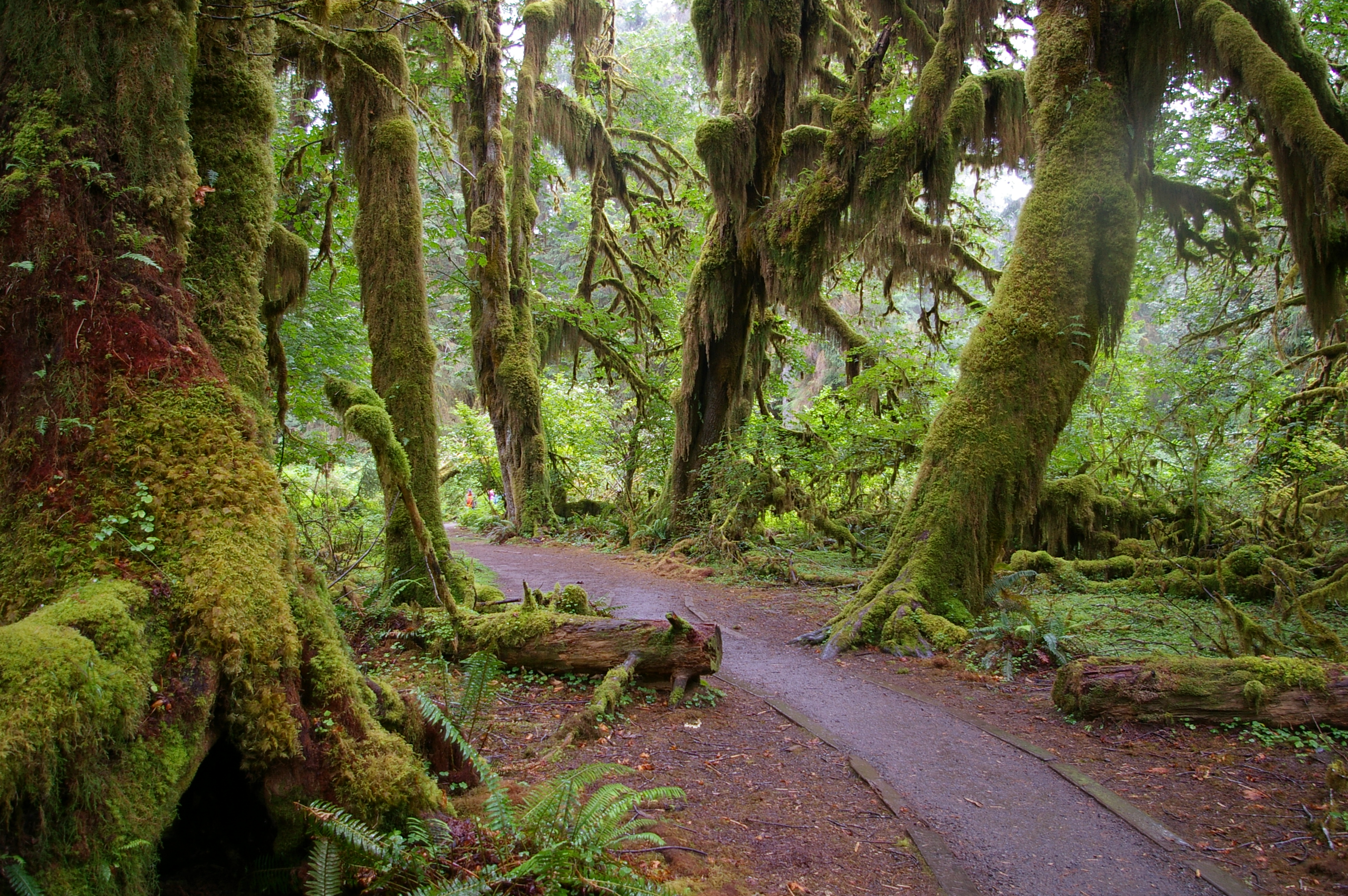 Olympic National Park, Hoh Rain Forest - Trail in Hall of Mosses